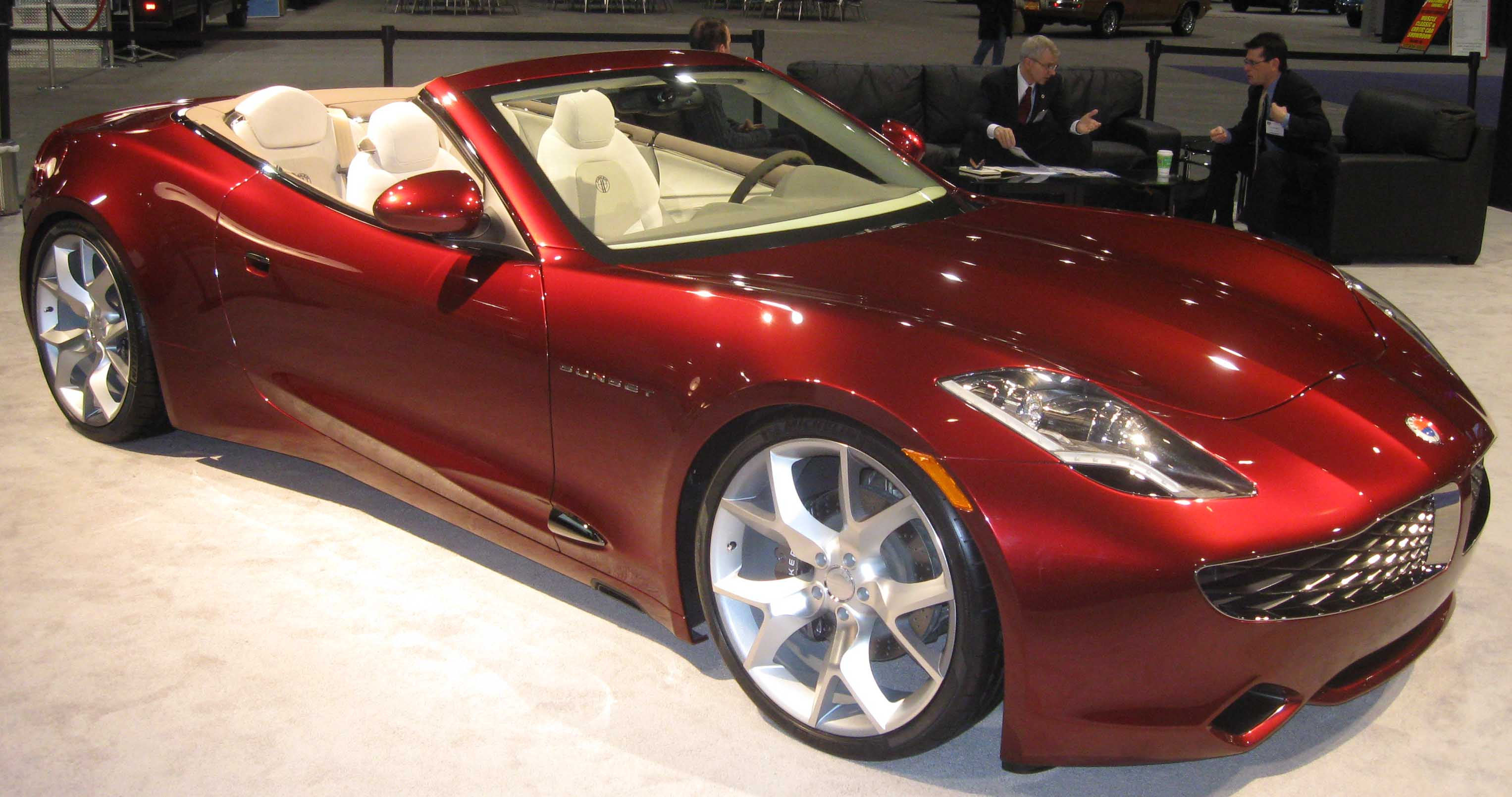 Fisker Sunset photographed at the 2009 Washington DC Auto Show.